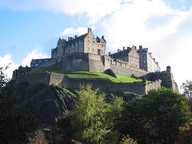 Edinburgh Castle early morning.